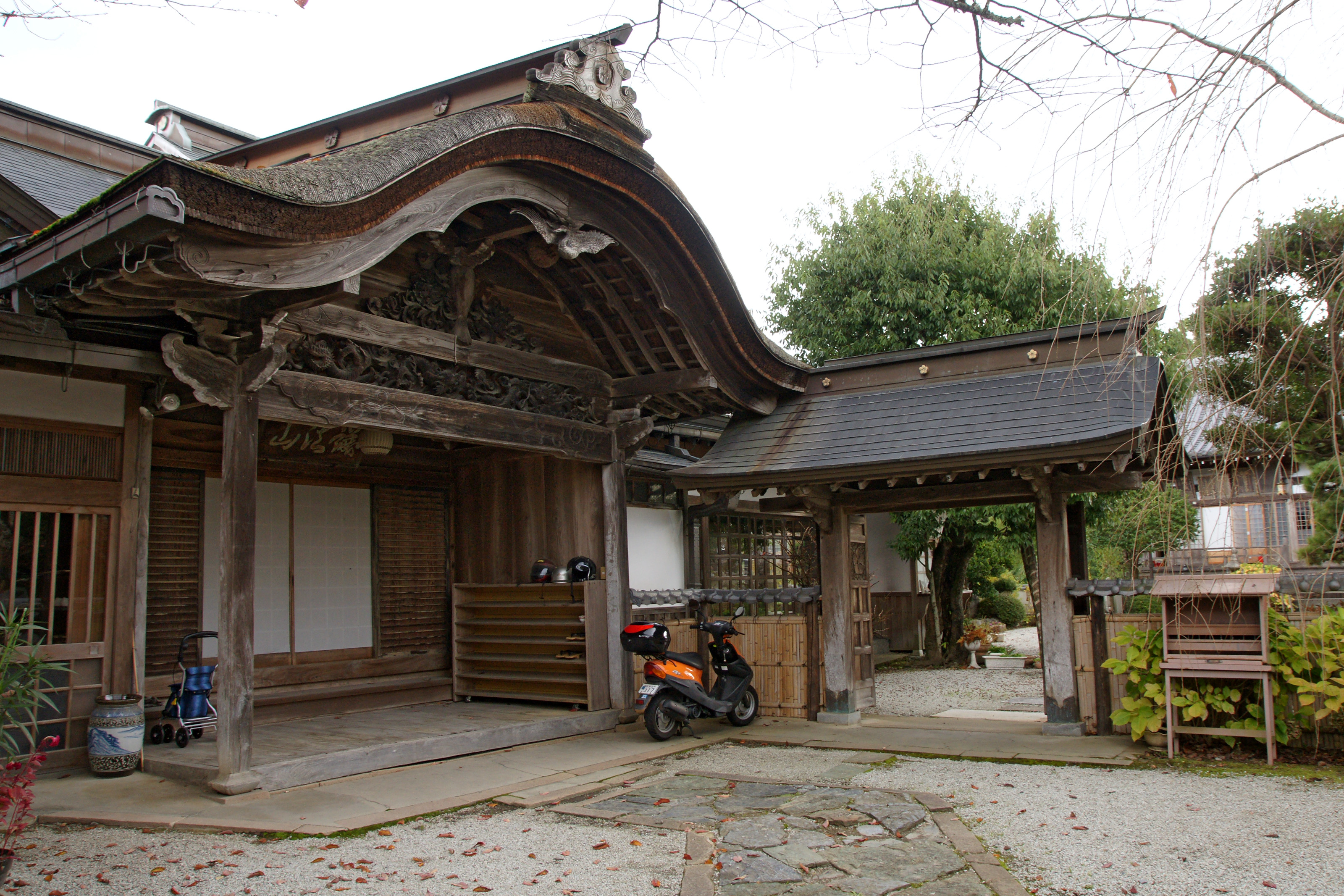 Kizoin in Yoshino, Nara prefecture, Japan